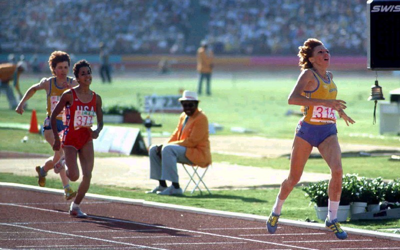 Fiţa Lovin, Kim Gallagher, Doina Melinte, 1984 Olympics